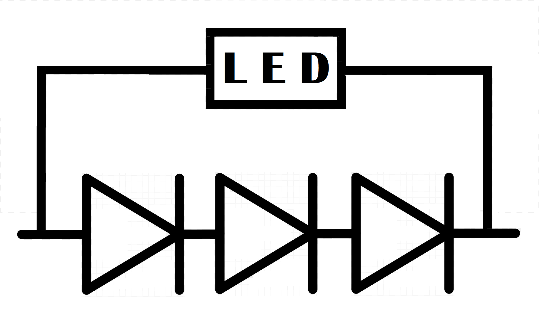 A red light emitting diode (LED) will glow whenever current pass through three silicon diodes.